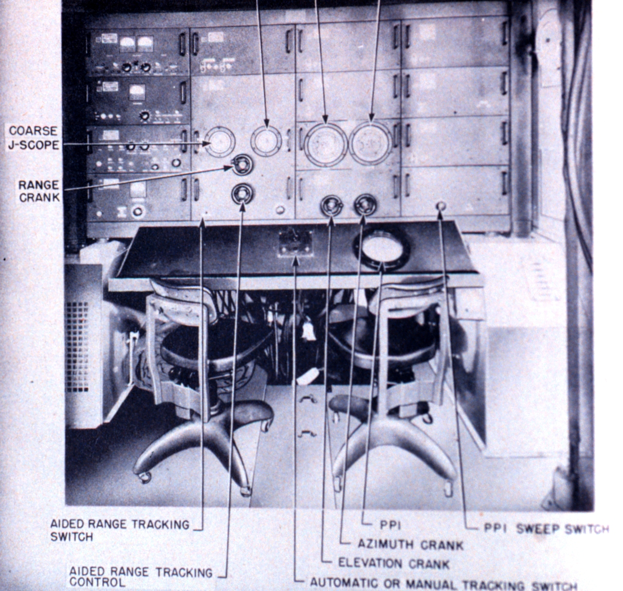 Operators console for an SCR-584 radar unit. This picture is from an Army Air Force manual titles "Radar Storm Detection".